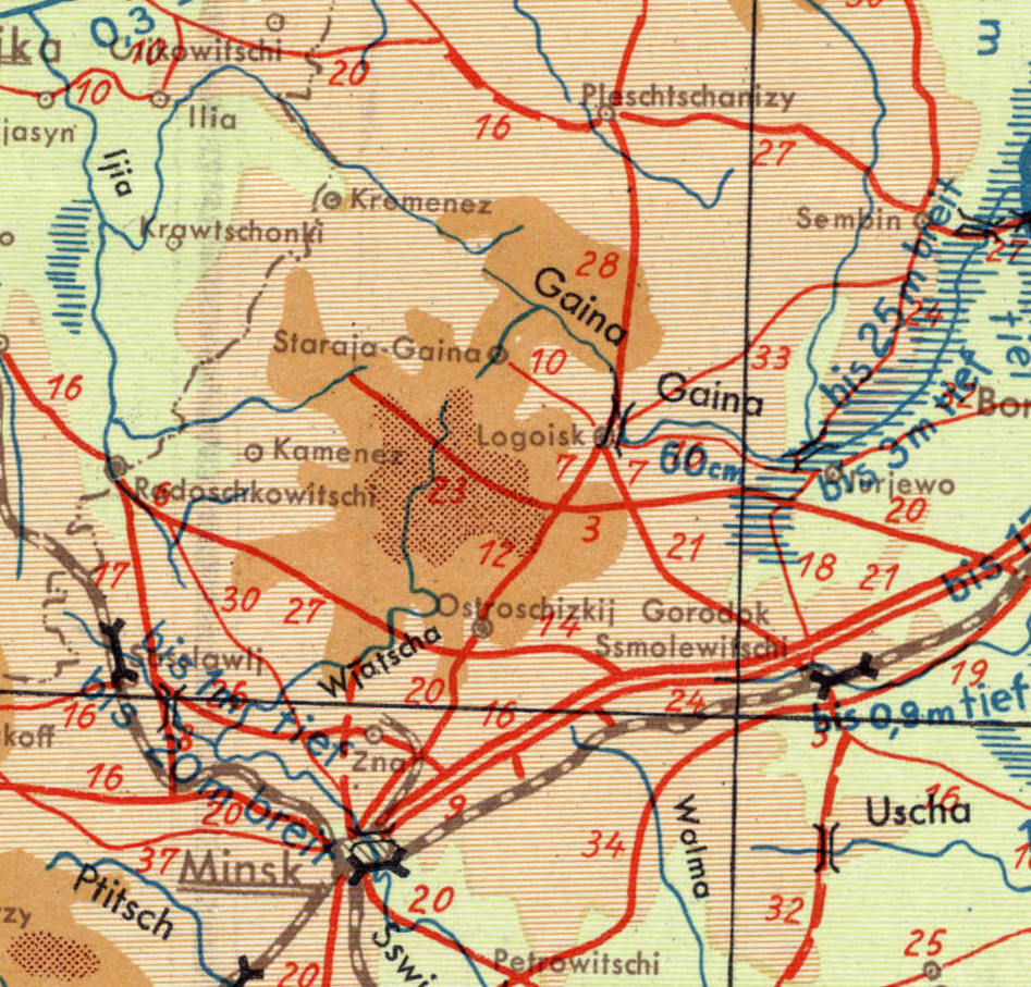 A fragment of a German map of 1941, the region to the north of Minsk. It depicts the road Pleschenytsy-Logoysk, near to which, on March 22, 1943, the Khatyn massacre happened.